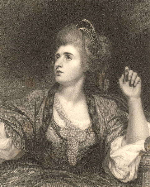 Sarah Siddons (née Kemble)(1755-1831), tragedian and interpreter of Shakespeare. This engraving by William Holl the Younger was first published in Knight's Portrait Gallery in 1835.